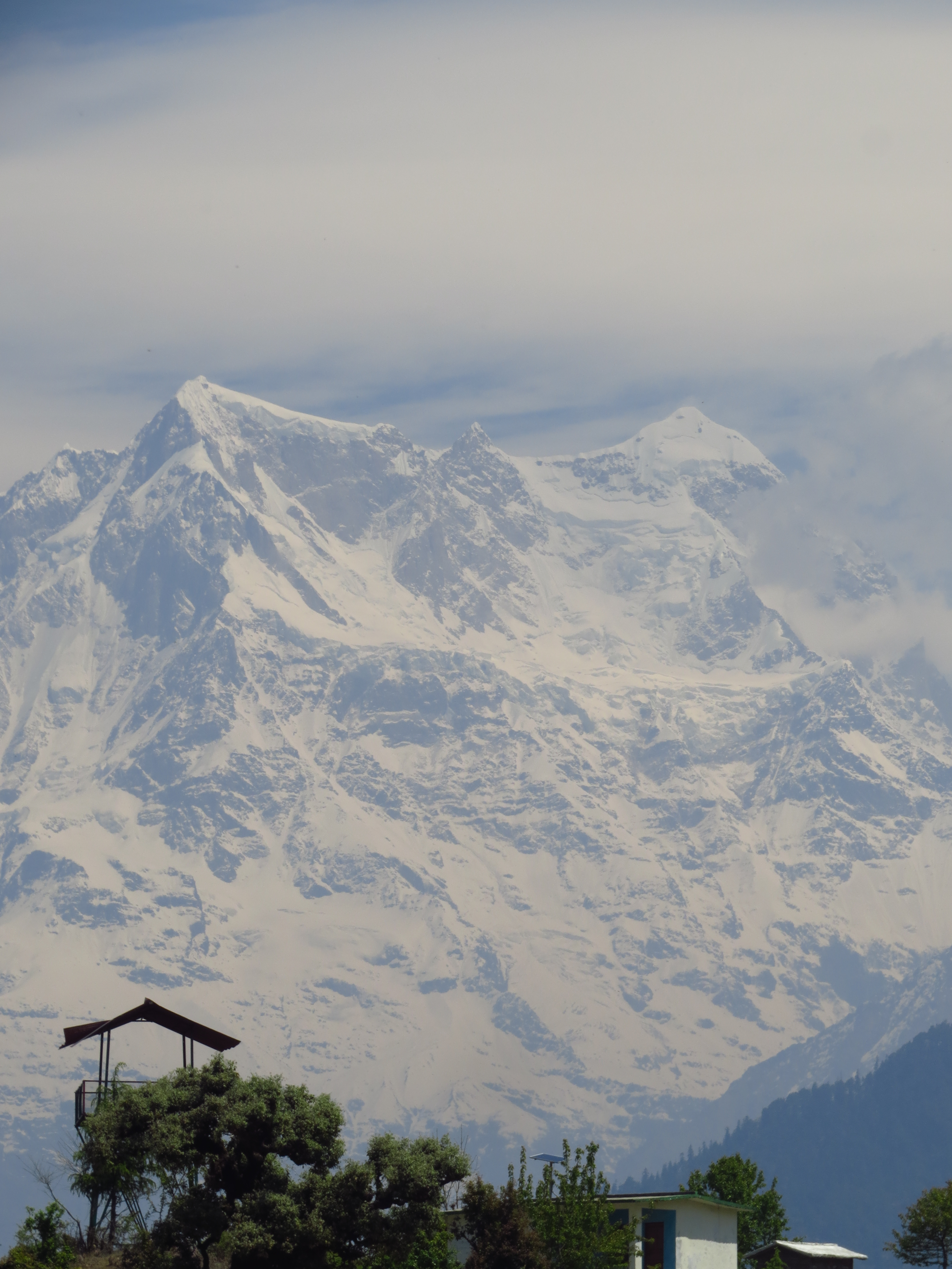 This image is of Mt. Chaukhamba. It has clicked from Devriyatal, in the summer of 2016.